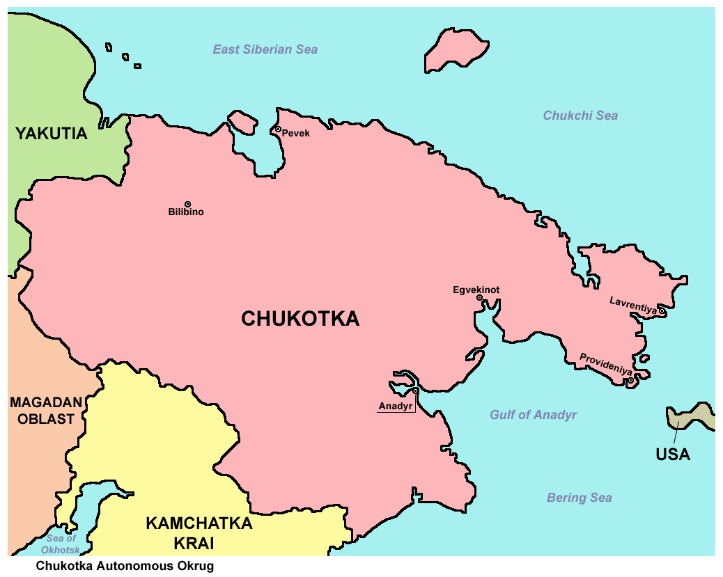 Map of Chukotka.